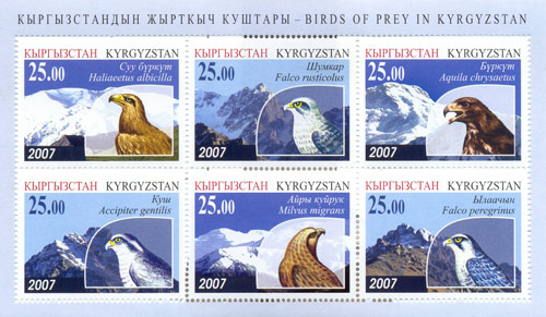 Stamp of Kyrgyzstan